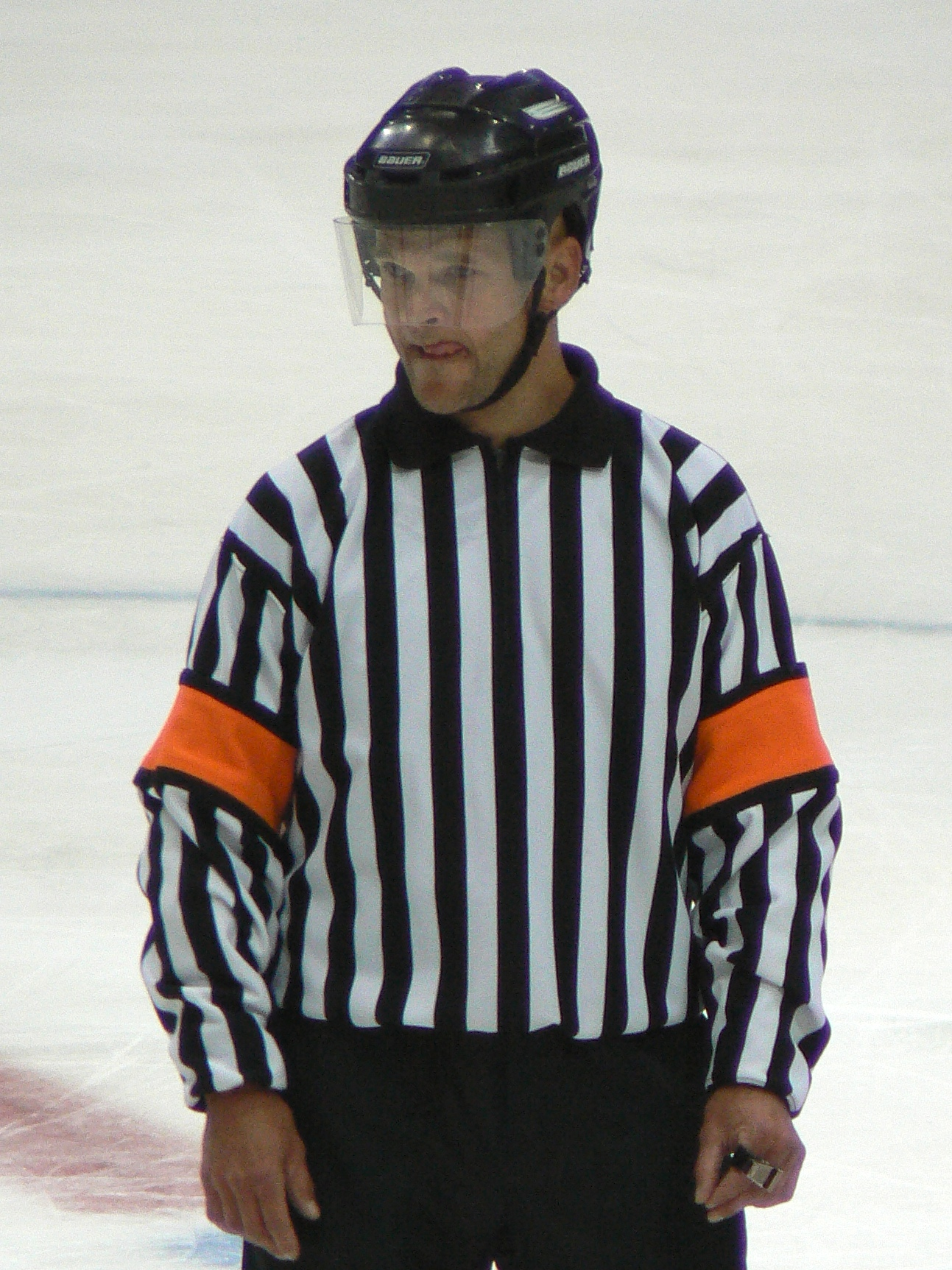 Former Finnish ice hockey defenseman and later referee Hannu Henriksson at the 2008 Tampere Cup.